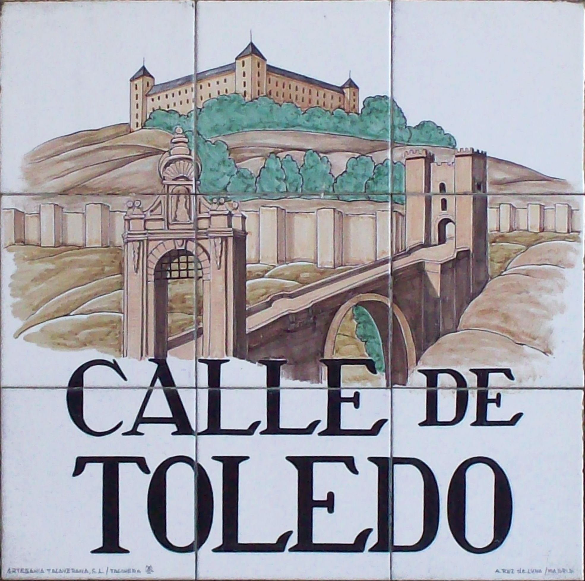 Sign of Calle de Toledo (street) in Madrid (Spain).